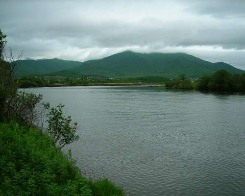 Partizanskaya River near its mouth